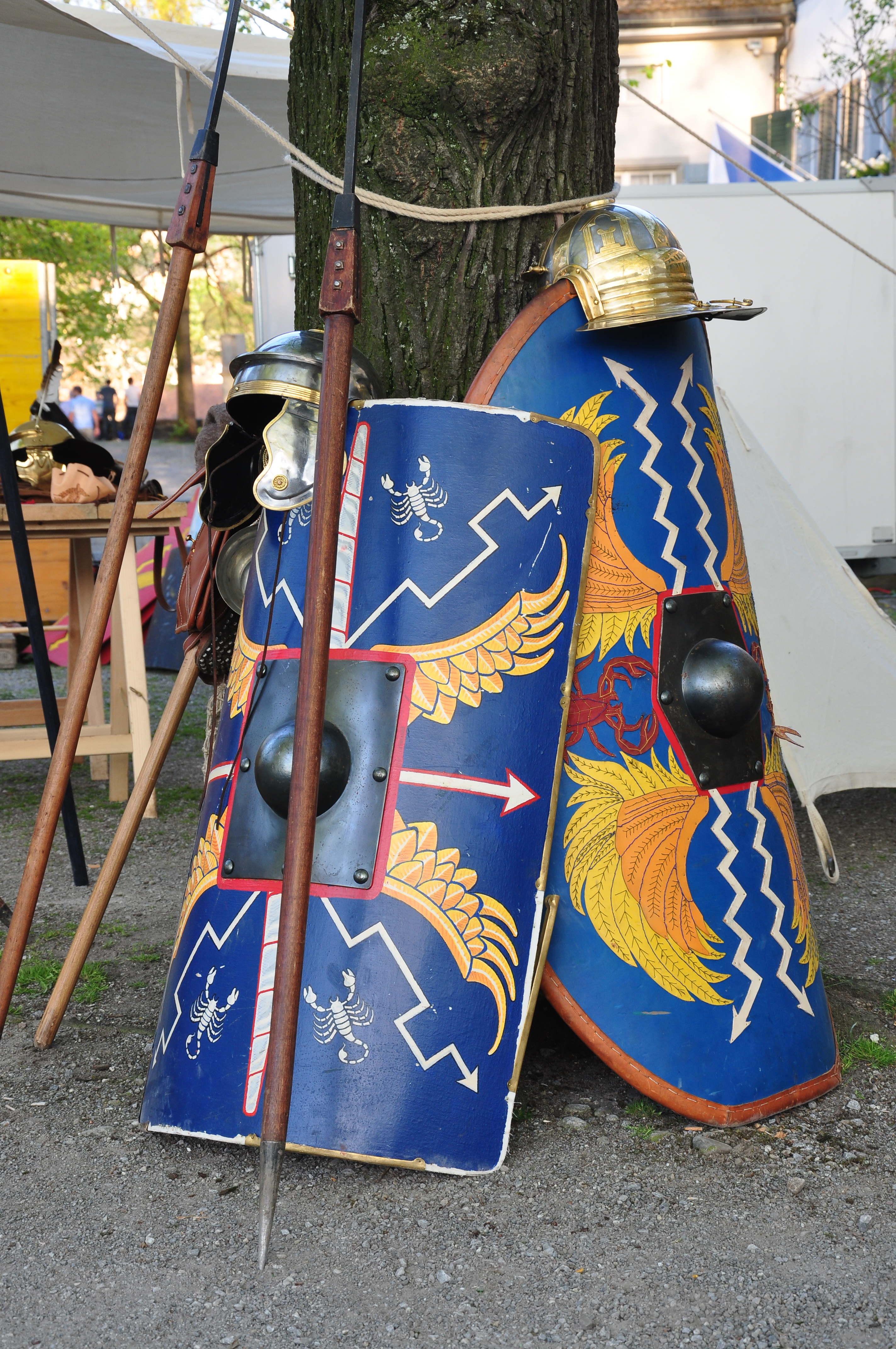 Legio XXI Rapax, 'guests' on Lindenhof plaza respectively Pfalzgasse in Zürich (Switzerland) on Friday-Monday before Sechseläuten in April 2011